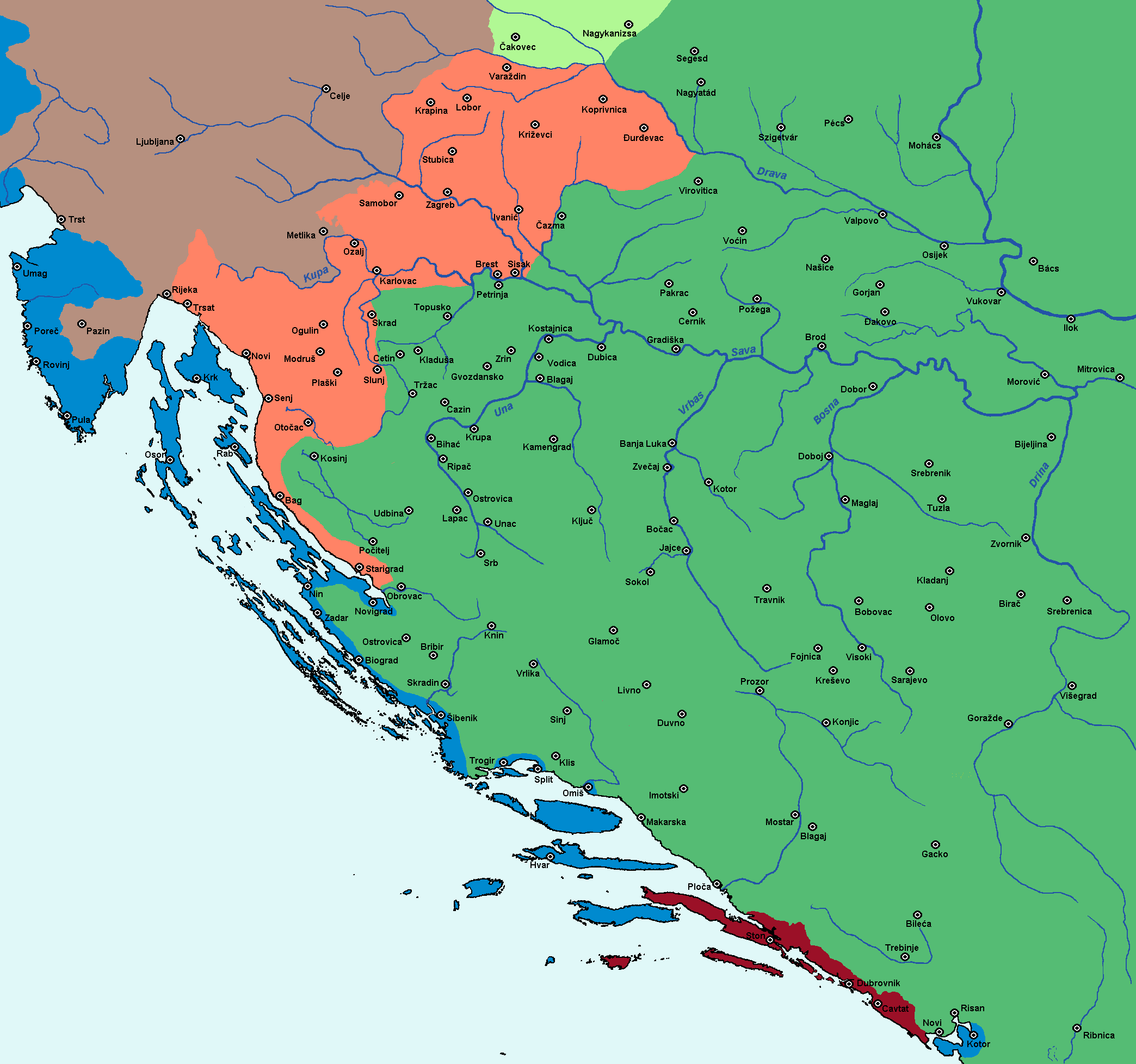 Kingdom of Croatia, Kingdom of Hungary, Ottoman Empire, Archduchy of Austria, Ragusa, and Venice in 1593 Kingdom of Croatia Ottoman Empire Republic of Venice Archduchy of Austria Republic of Ragusa Kingdom of Hungary